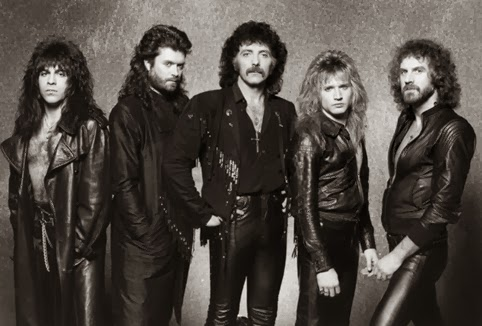 Promotional photo of heavy metal band Black Sabbath.